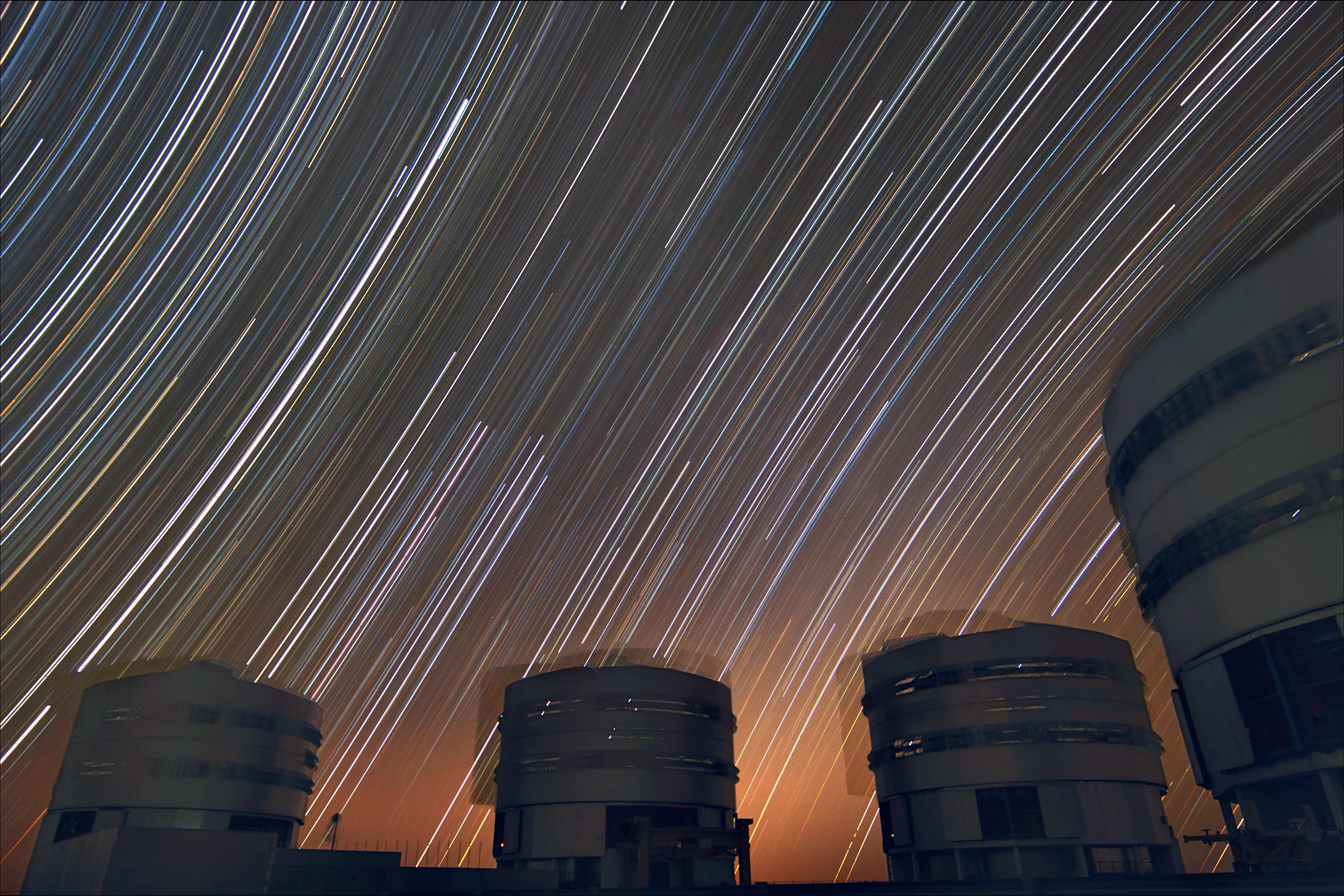 The celestial sphere rotating above the ESO's Very Large Telescope at Paranal Observatory. This long exposure shows that the seemingly fixed stars appear to circle the south (left) and north (right) celestial poles. The stars along the celestial equator appear to follow a straight oblique path in the middle of the image. The motion blur of the VLT's enclosures are also visible.